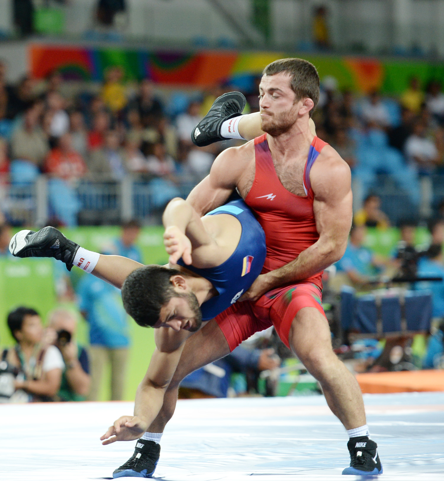 Wrestling at the 2016 Summer Olympics, Bayramov vs Rodríguez